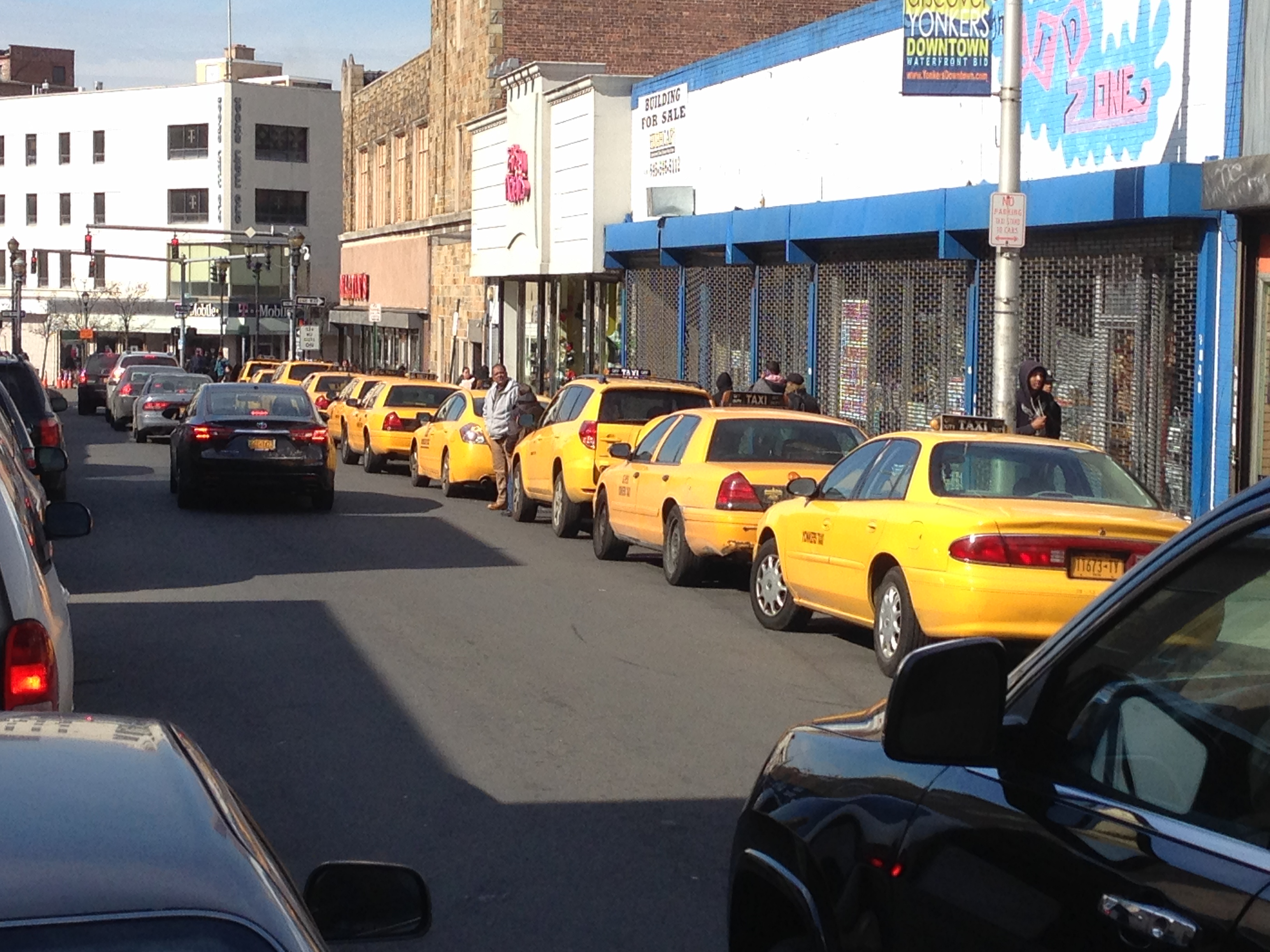 Taken on March 1, 2014. Taxis waiting to pick up passengers with large packages in the Getty Square Shopping District, Yonkers, New York.